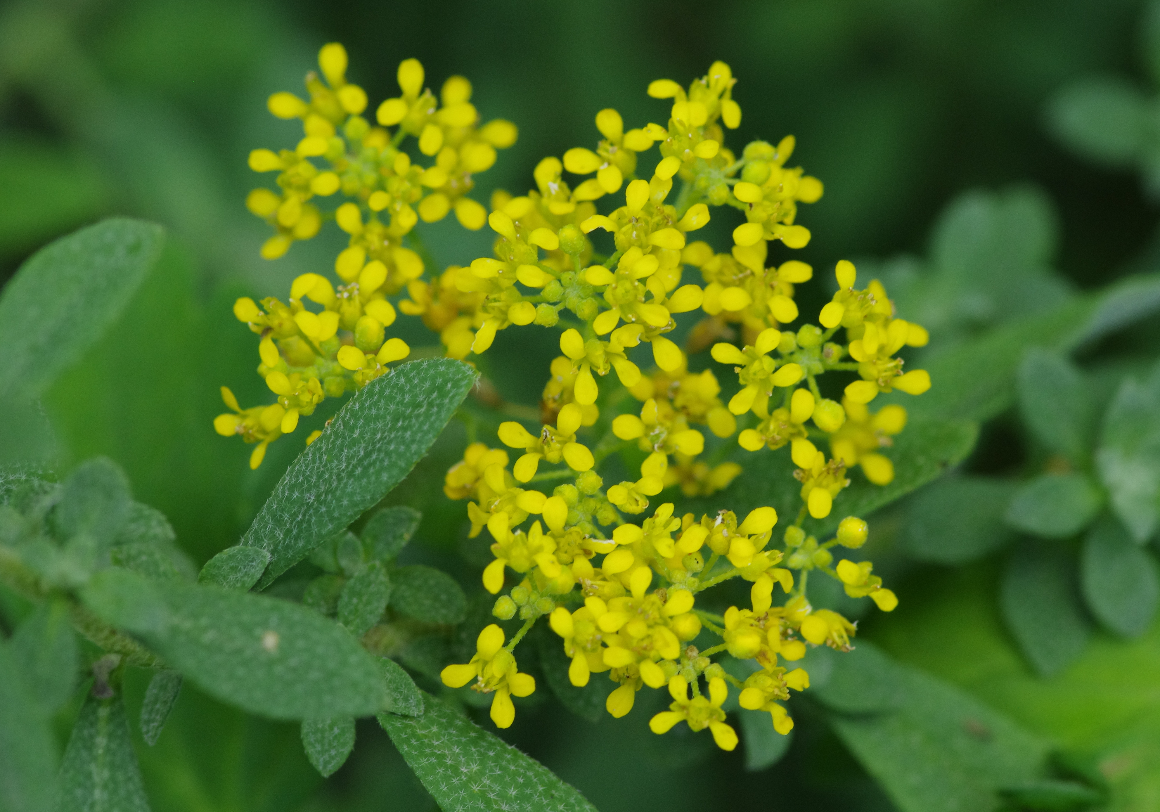 Alyssum lenense at the ÖBG Bayreuth